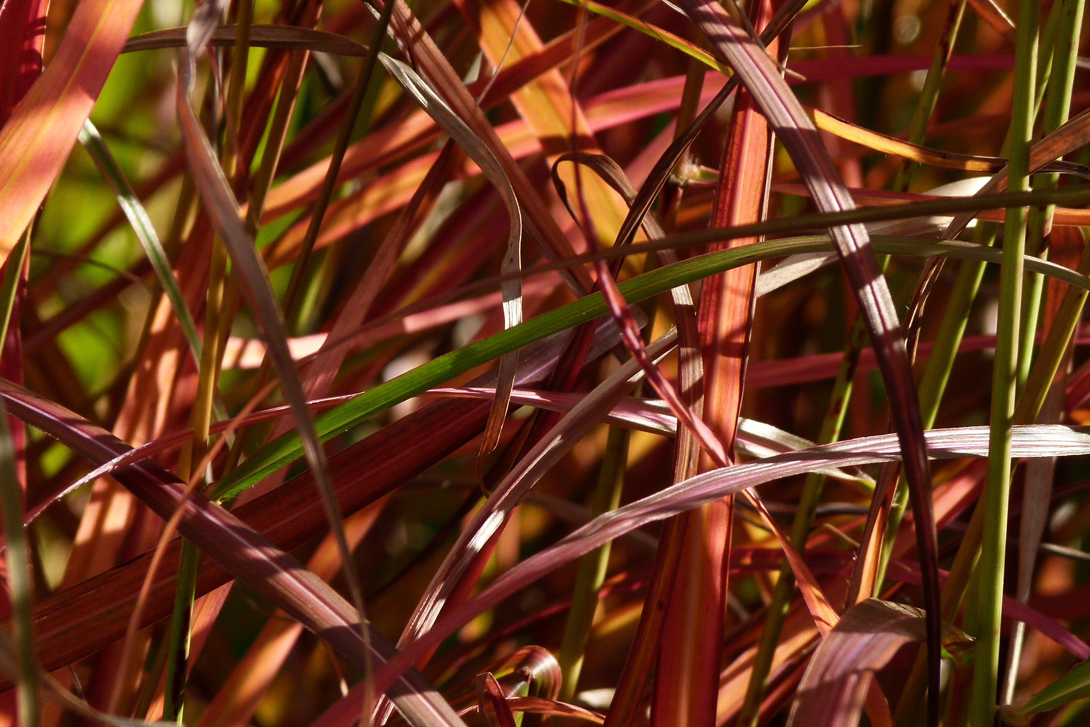 Miscanthus sinensis 'Ferner Osten'